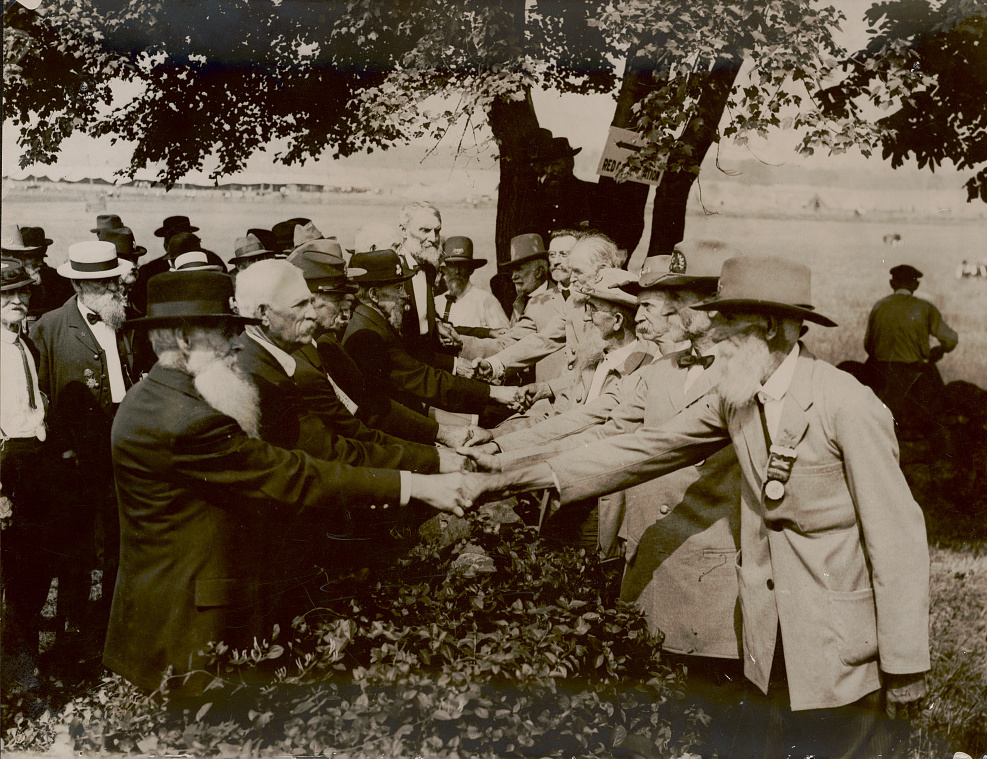 Now the "Friendly" Angle One of the most affecting sights witnessed during the present reunion of Confederate and Federal veterans at Gettysburg is depicted in this photograph. Across the stone wall, which marks the boundaries of the famous "Bloody Angle" where Pickett lost over 3,000 men from a force of 6,000 these old soldiers of the North and South clasped hands in fraternal affection / / International News Service, 200 William St., New York.